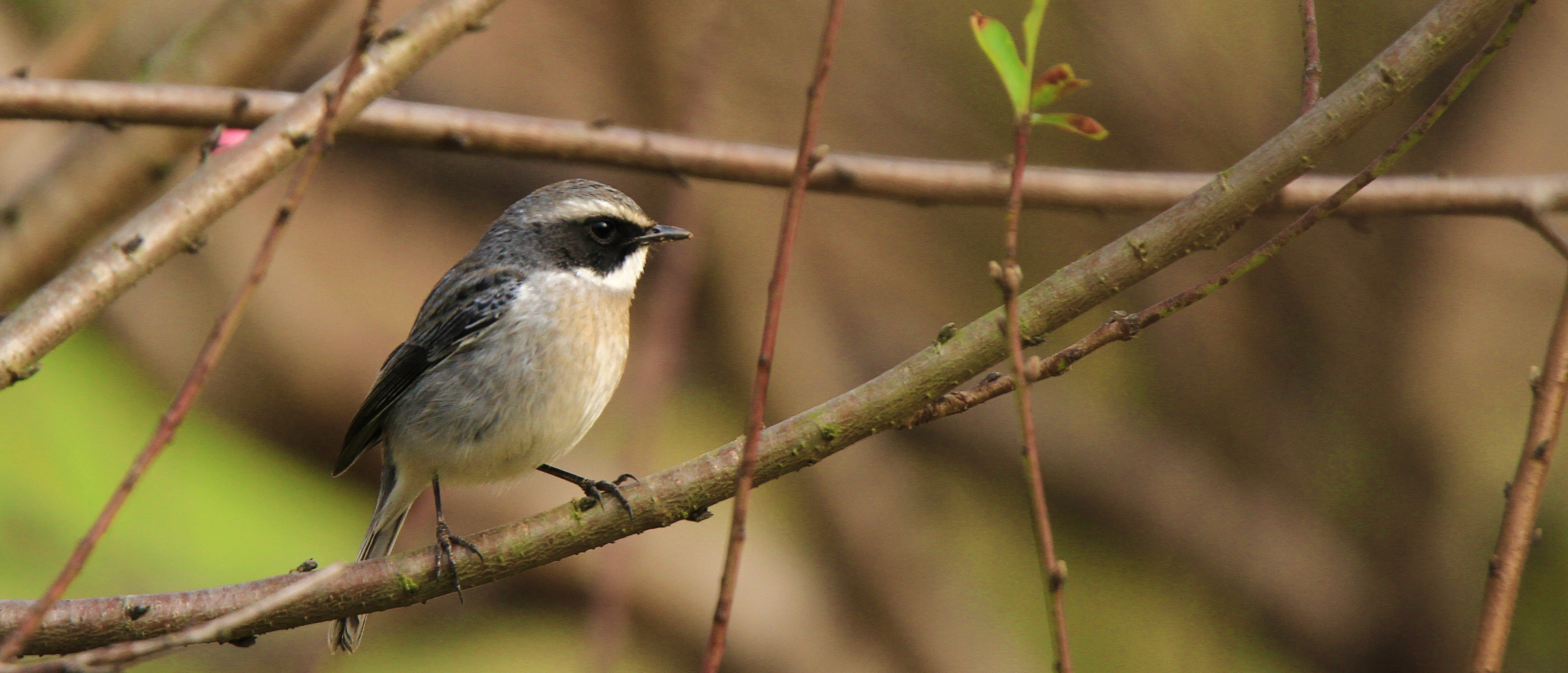 Grey bush chat